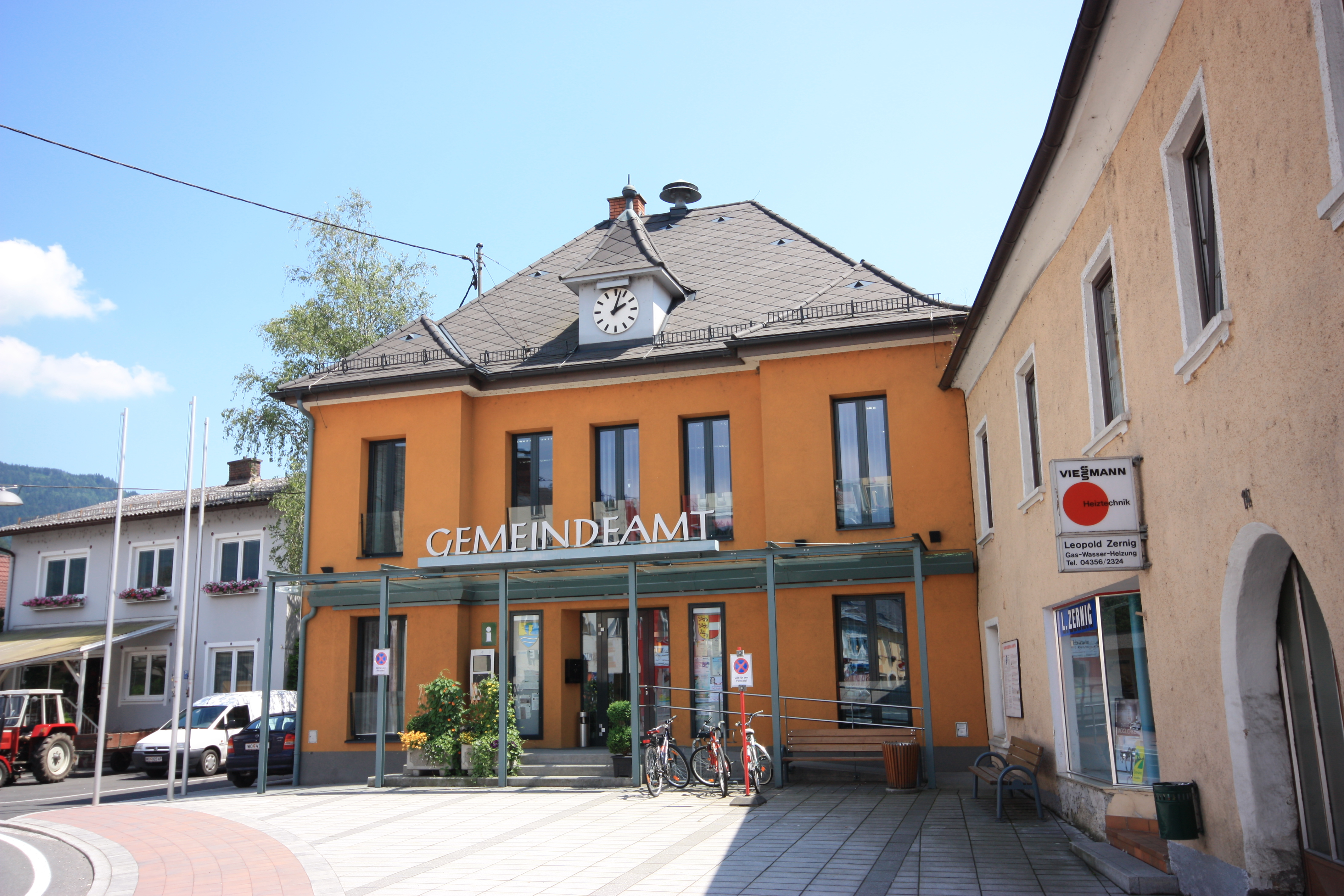 Municipal hall in Lavamünd, Carinthia